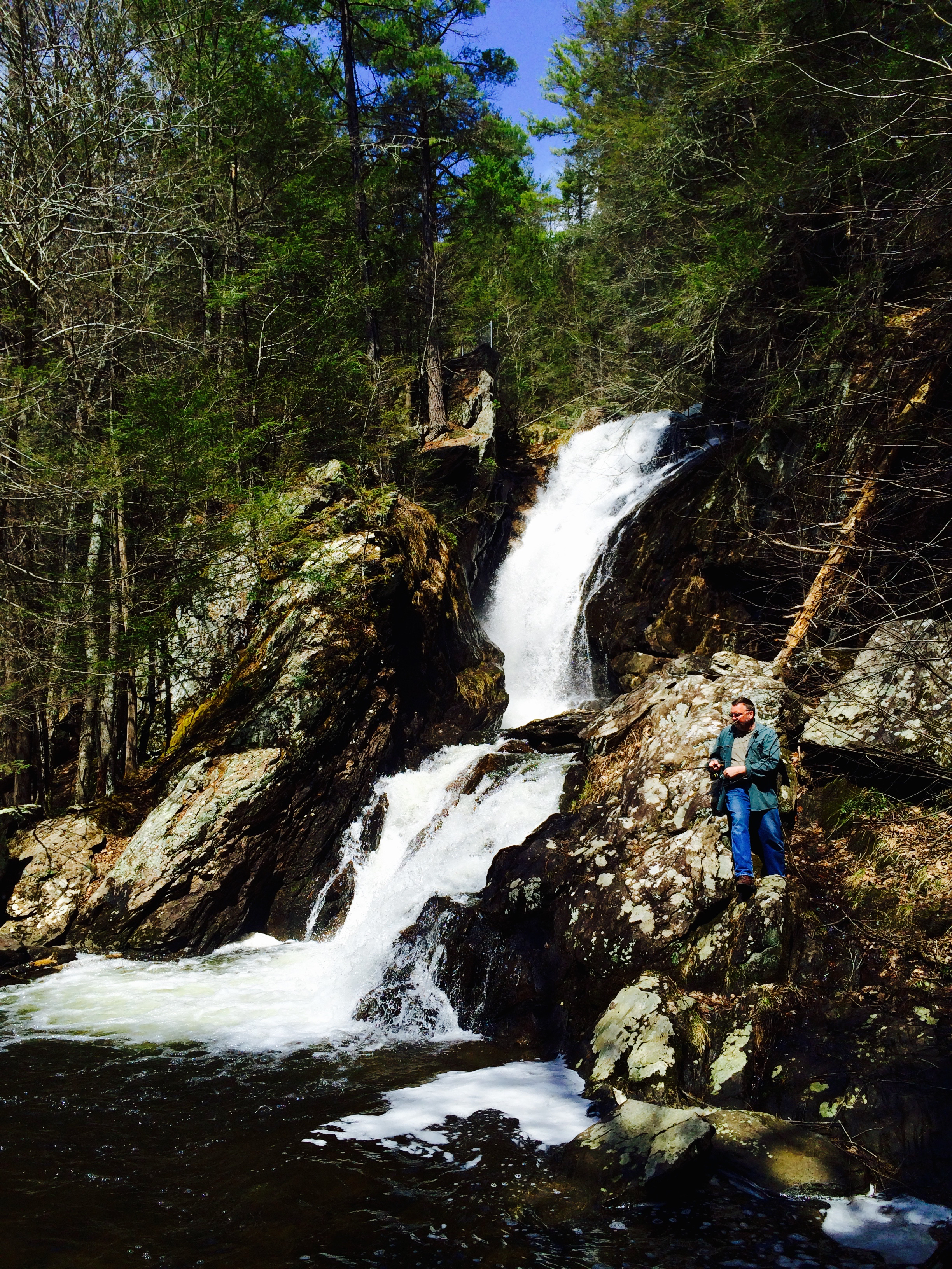 Campbell Falls, Campbell Falls State Park Reserve, Southfield, Massachuesetts.